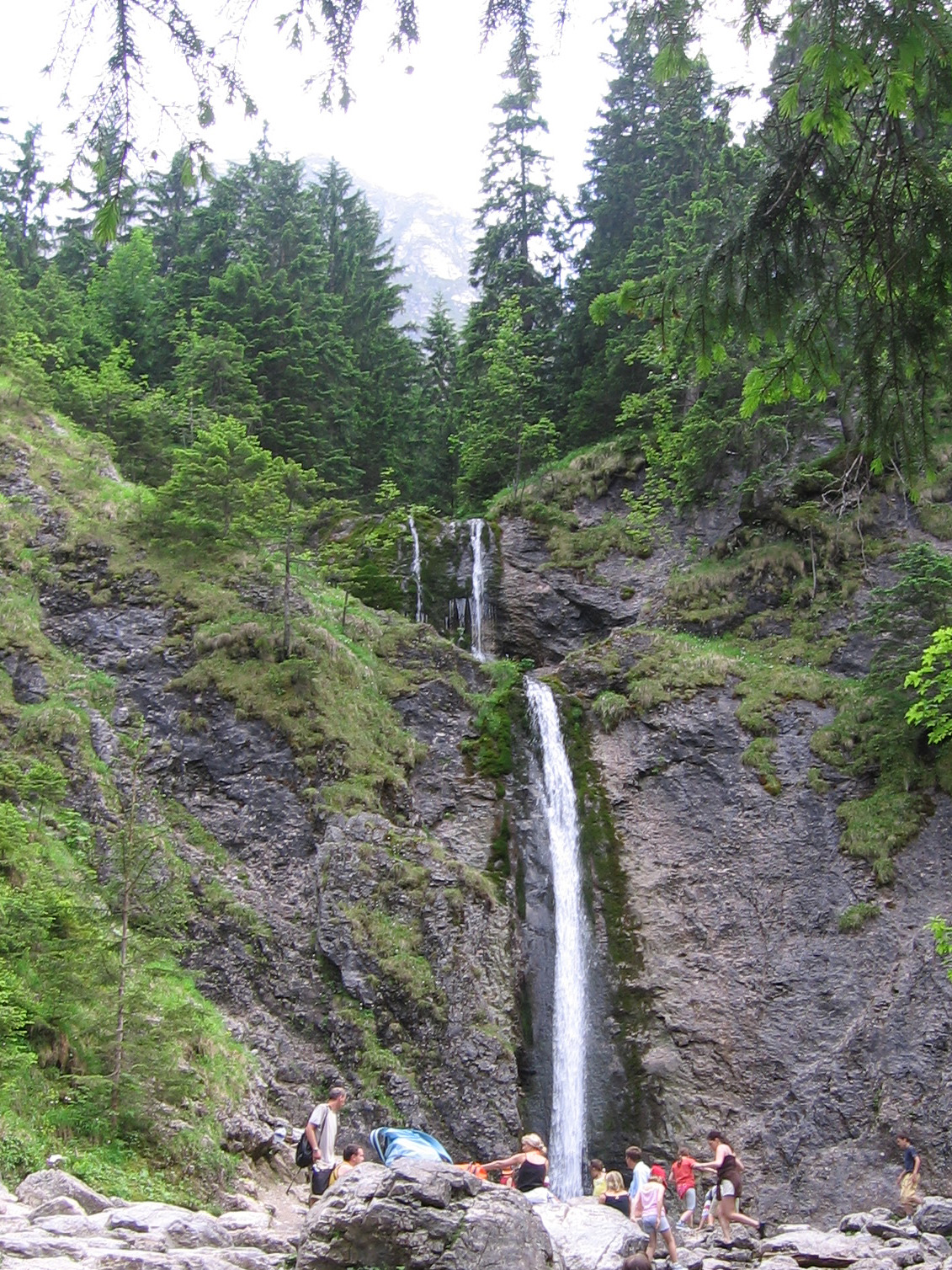 Siklawica waterfall in Strążyska Valley, Tatras, Poland